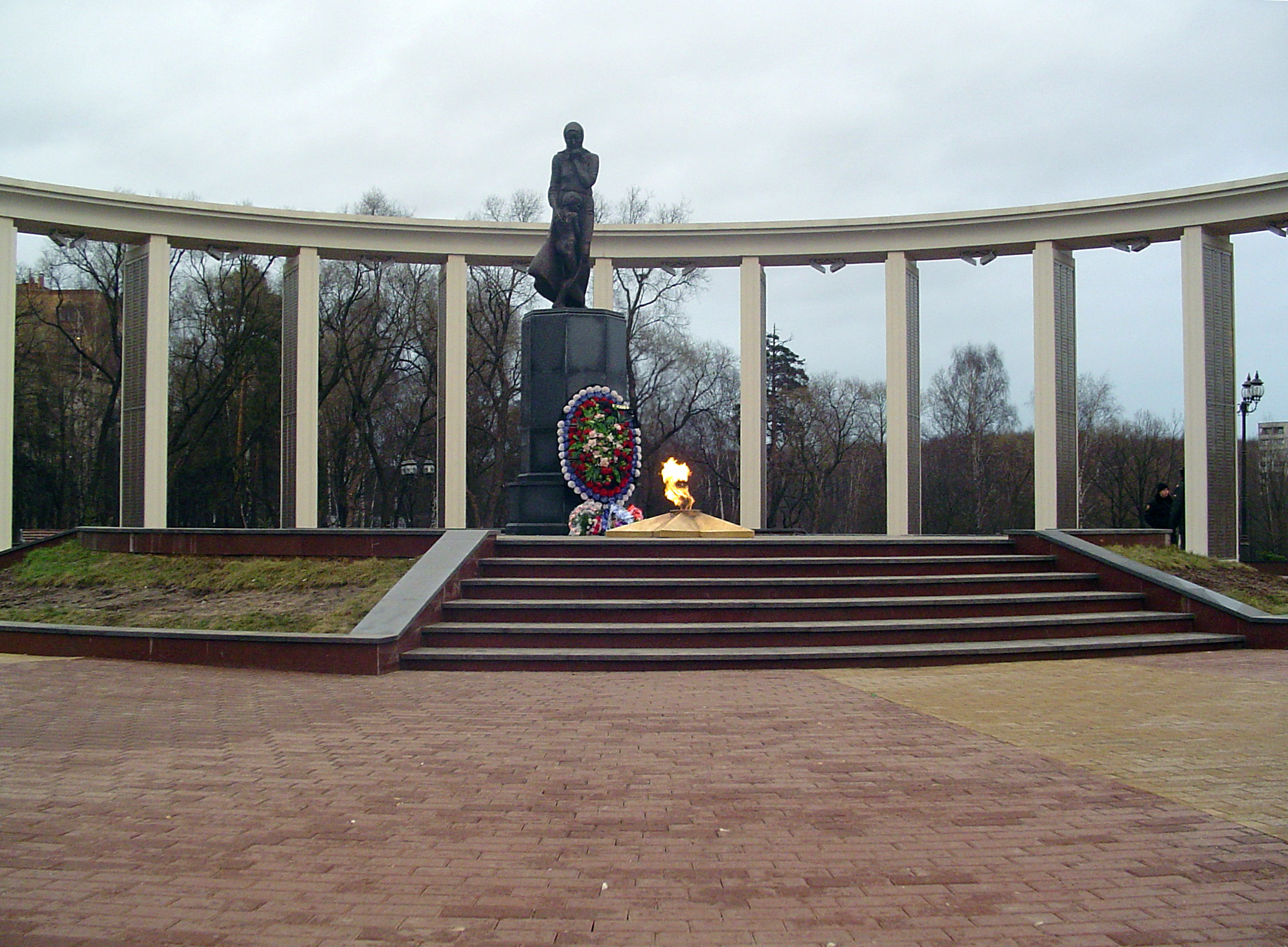 Pushkino city, Russia.